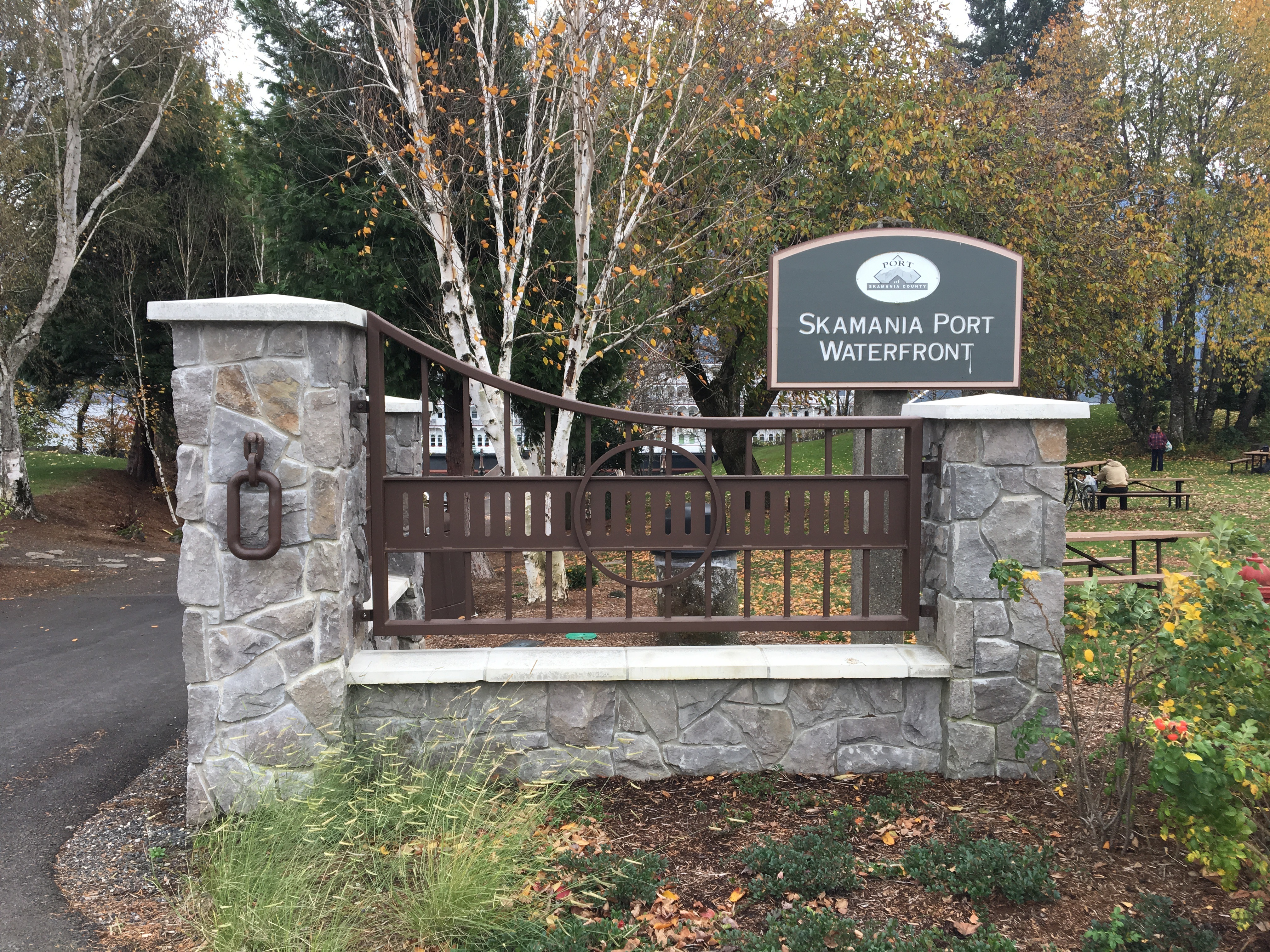 Stevenson, WA